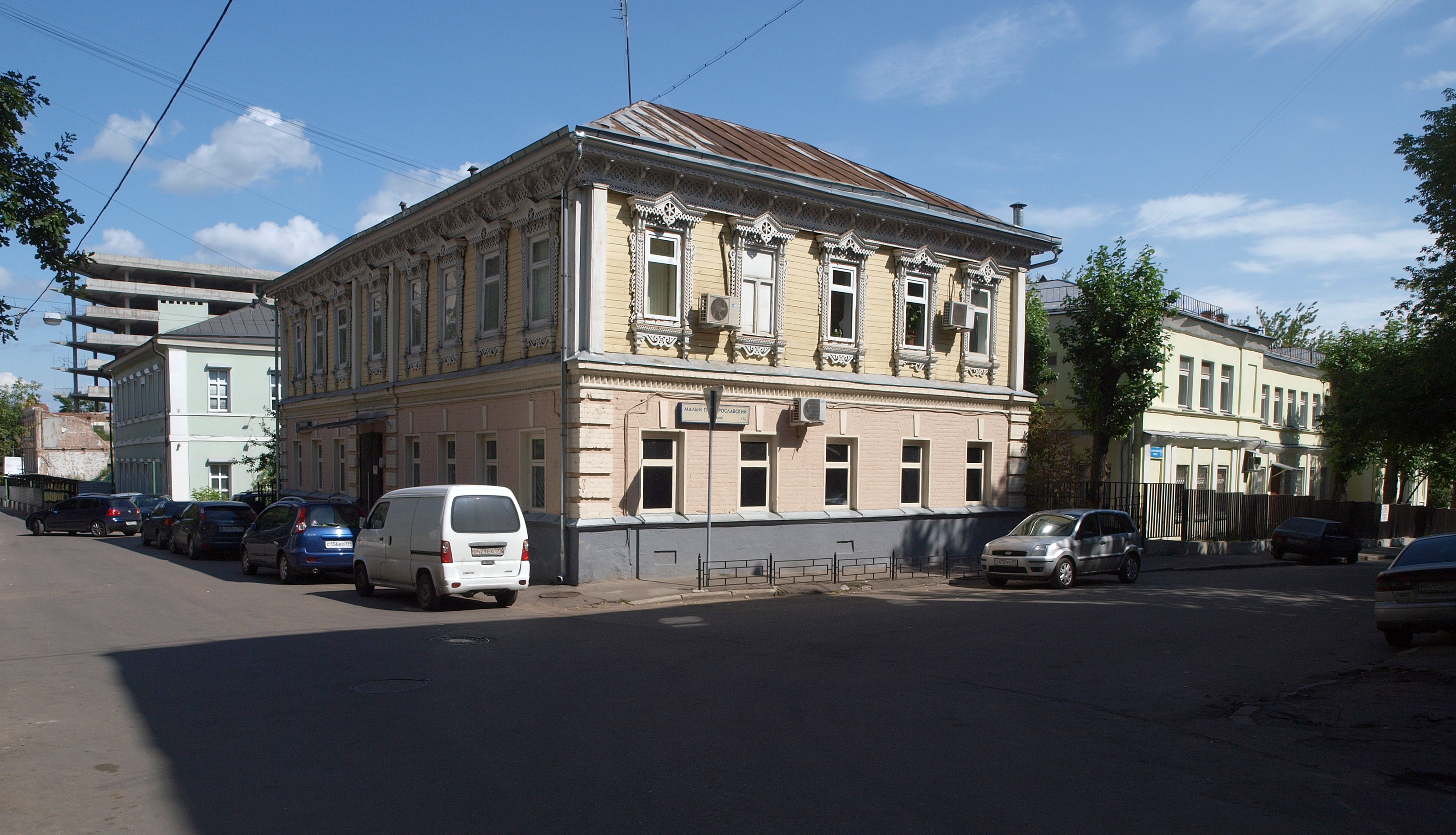 Corner of Maly Poluyaroslavsky and Melnitsky Lanes, Moscow.